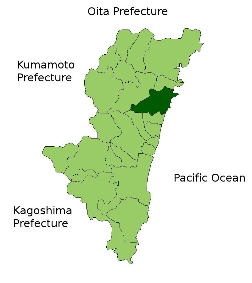 Location Map of Hyuga in Miyazaki Prefecture, Japan